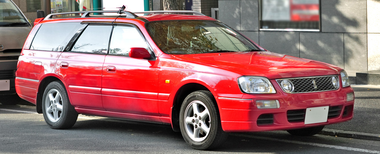 Nissan Stagea 25X later type